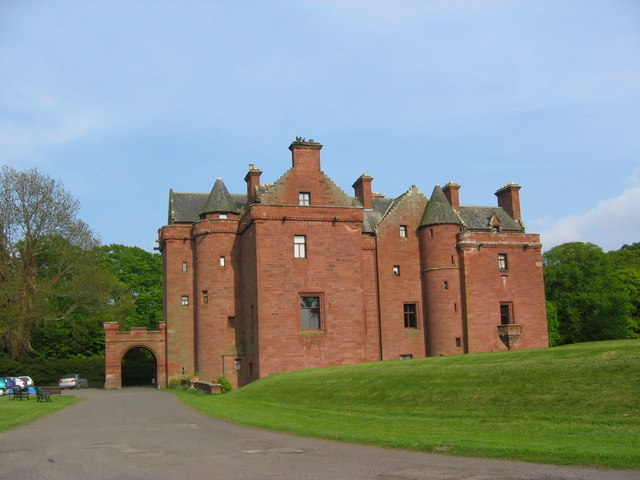 Entrance to Nunraw Abbey Nunraw started as a monastic grange owned by the nuns of Haddington. The last prioress bequeathed it to the Hepburn family who built a castle in the grounds. It was restored in 1863, and in 1945 it was taken over by Cistercian monks from Ireland. The monks have since built themselves a modern monastery, Sancta Maria Abbey, close by, and Nunraw Abbey is now a Christian retreat, education and conference centre.